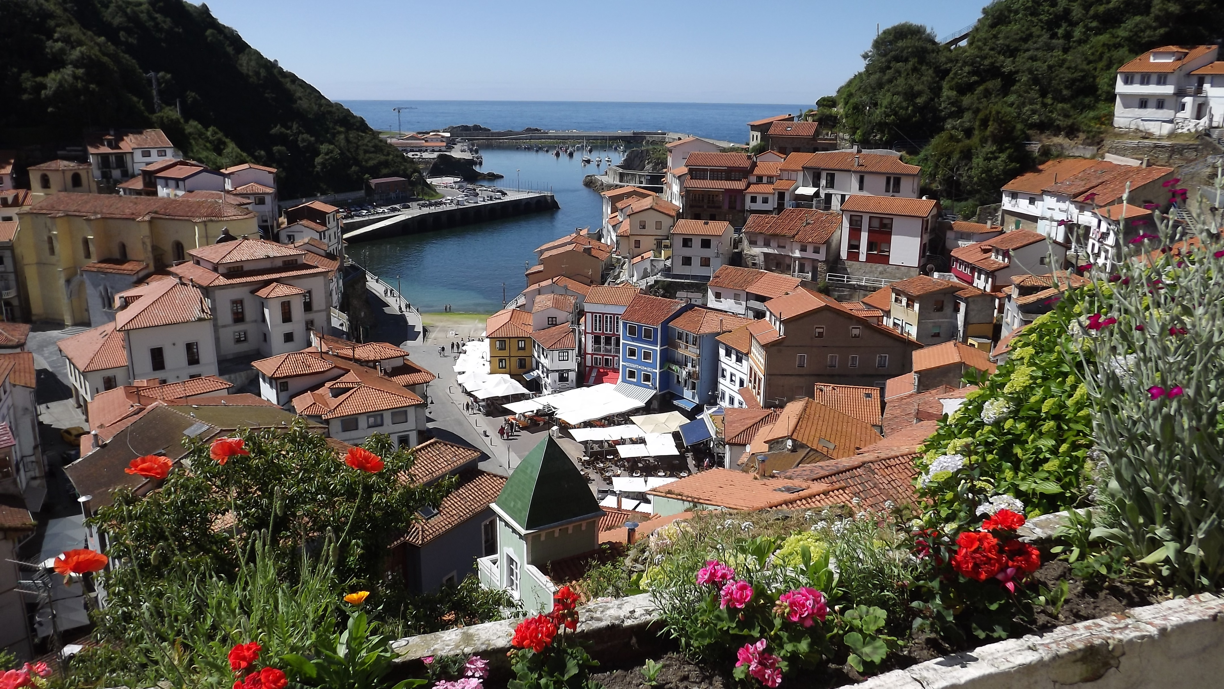 Cudillero.